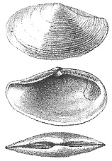 Yoldia semistriata - Fossil gastropod from Pliocene deposits near Antwerp (Belgium)